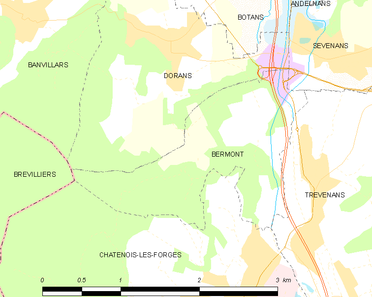 Map of French municipality Bermont